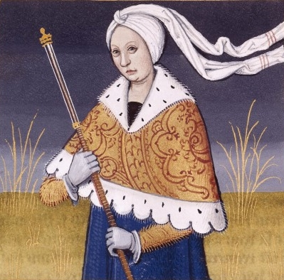 Lavinia, daughter of Latinus and Amata and wife of Aeneas.